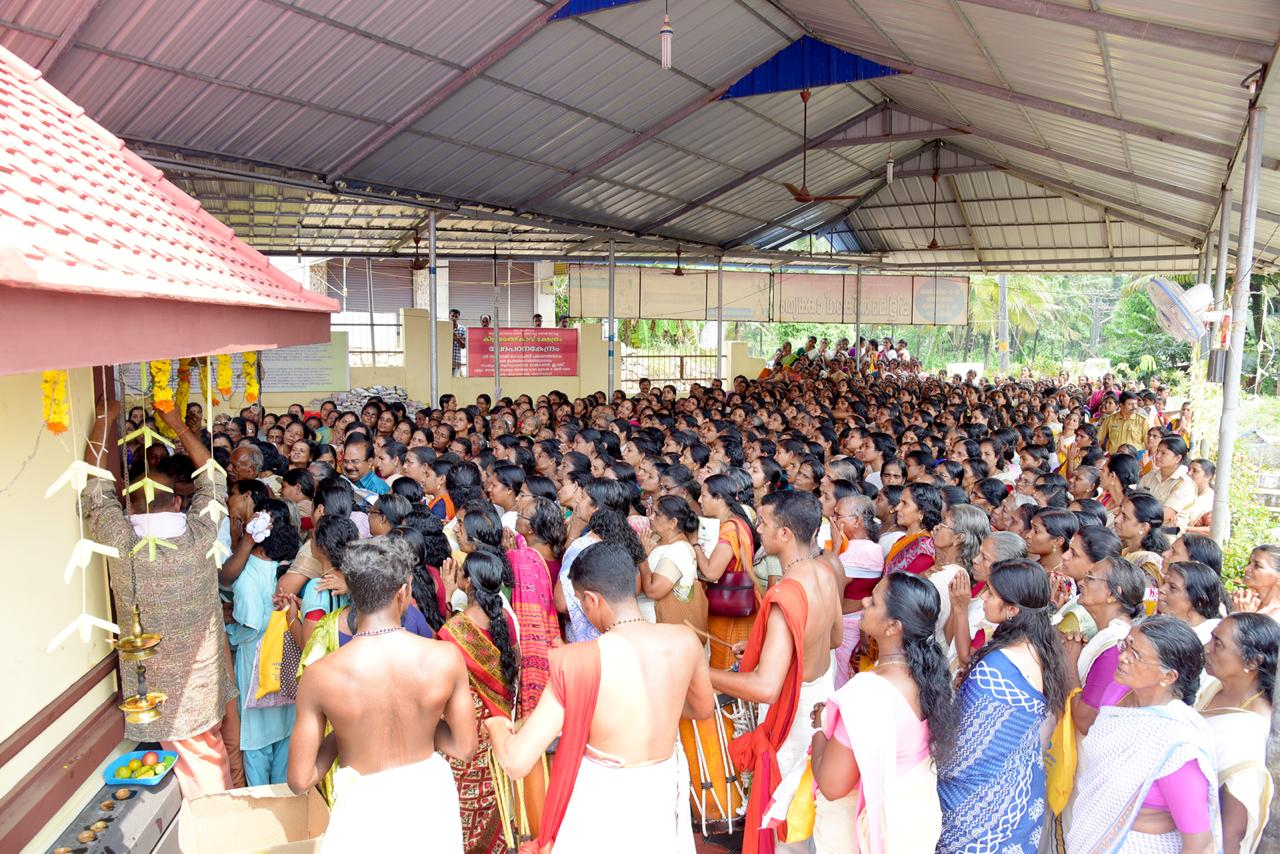 Skandha Shashtti